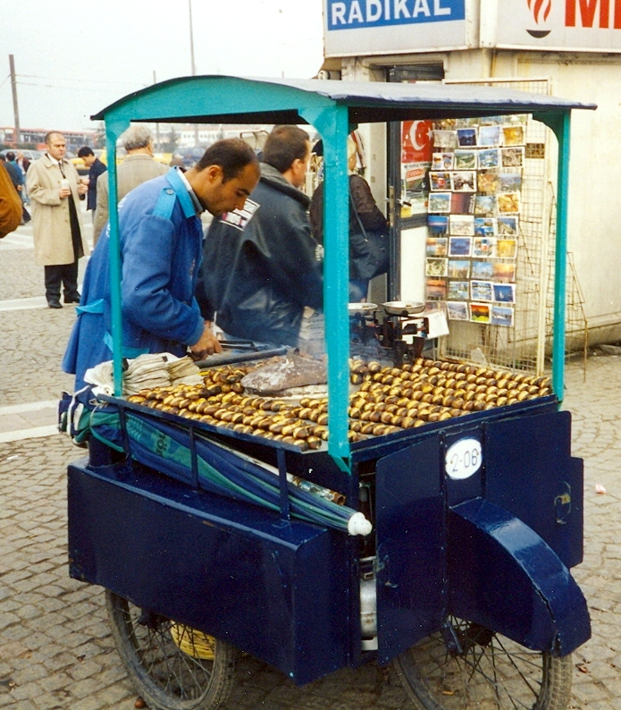 A vendor in Istanbul sells roasted chestnuts